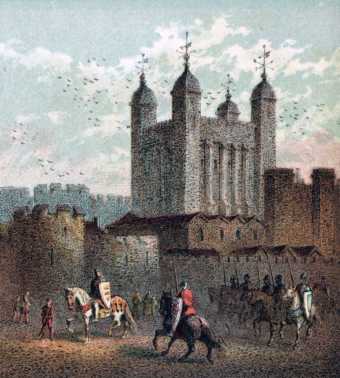 The Tower of London